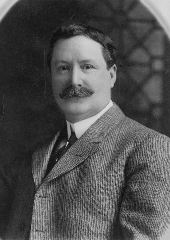 William J. Burns, detective & director of the Bureau of Investigation (FBI)